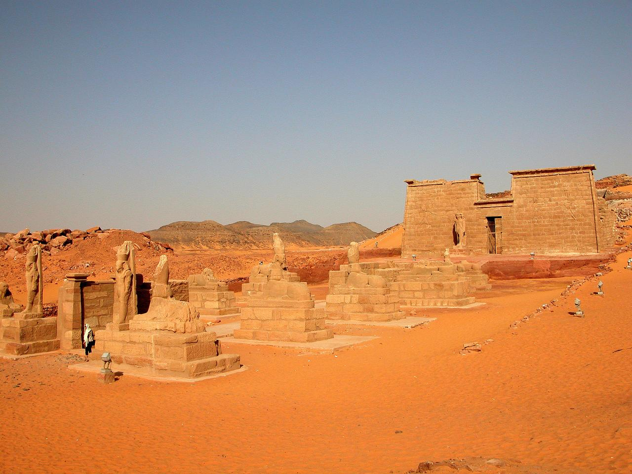 The Temple of Wadi es-Sebua in Nubia which was salvaged in 1964 and moved to a higher location along the Nile due to the construction of the Great Aswan Dam..